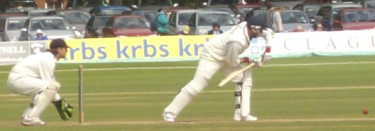 Darren Stevens of Kent batting, while Luke Sutton watches on